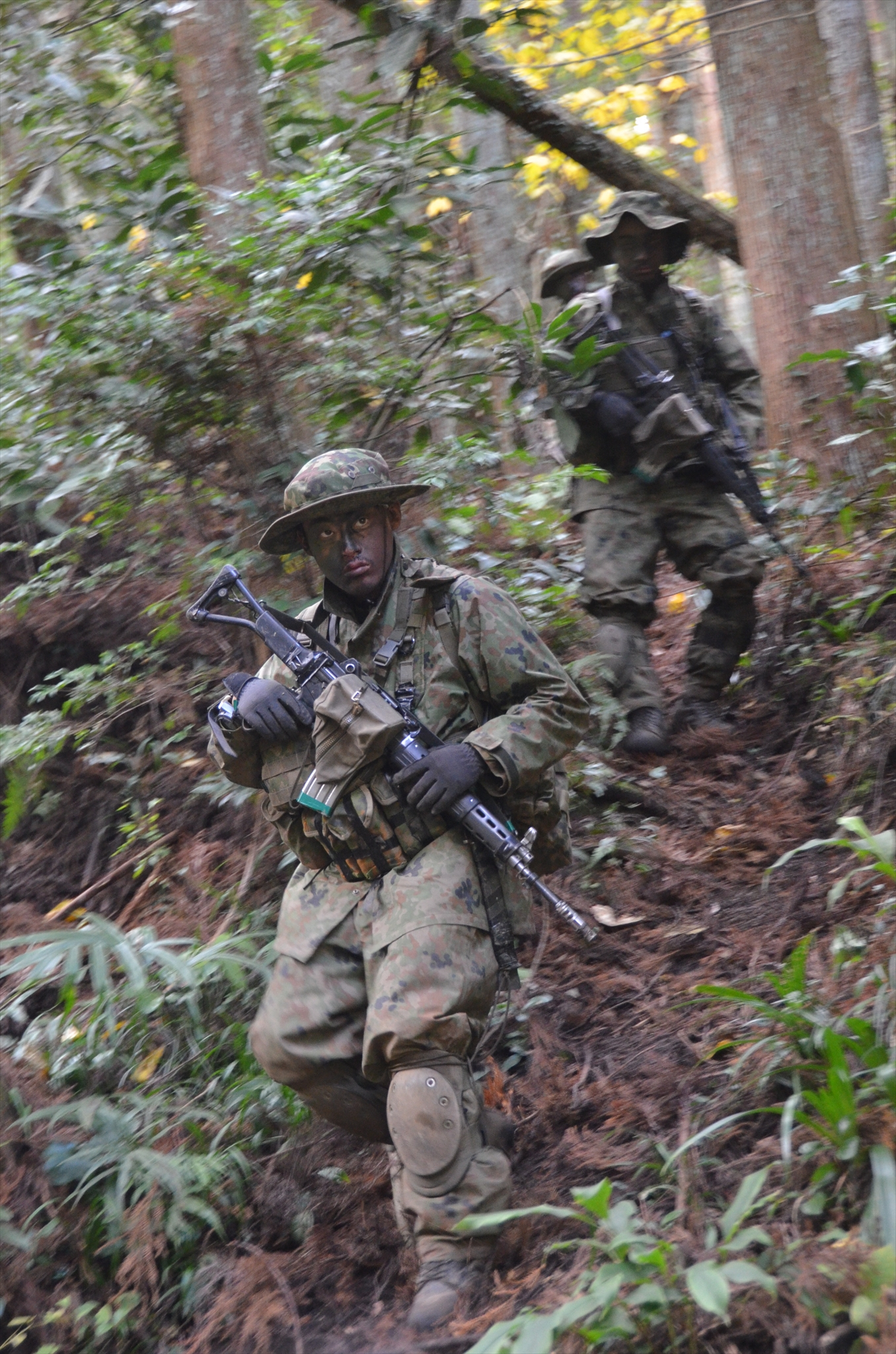 Title 24.12.01 空挺・レンジャー課程・偵察を終え速やかに離脱するレンジャー学生_R.JPG Album 装備 ８９式５．５６ｍｍ小銃（レンジャー教育・第１空挺団）